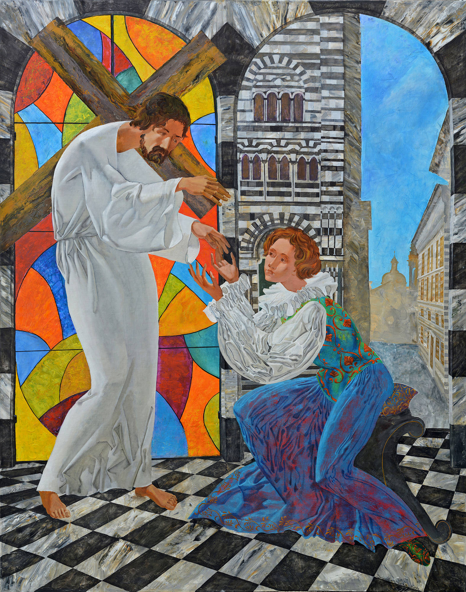 Saint Catherine of Genoa painted by artist Denys Savchenko. Church of St. Catherine, Genoa, Italy.